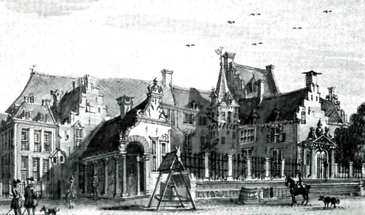 Court of Gelderland at Arnhem